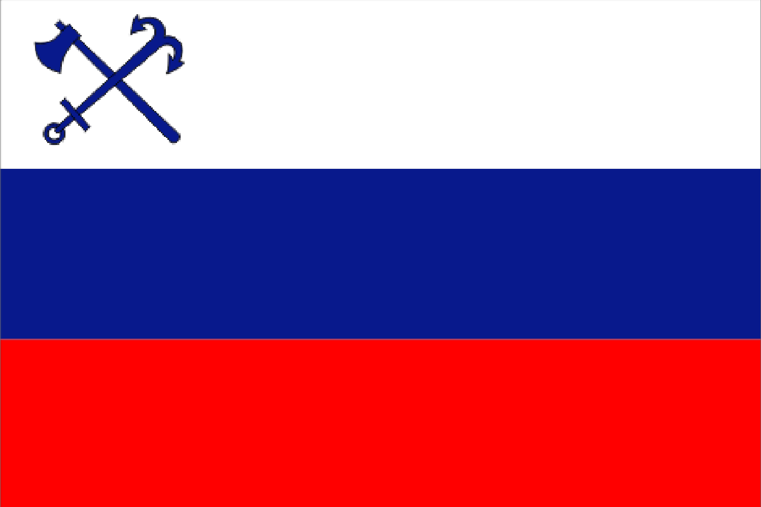 Flag of Russian Ministry of Railways 1870-1881